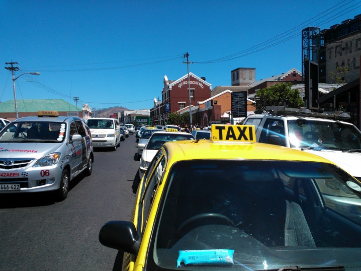 Old Biscuit Mill Woodstock Cape Town Taxi Cab